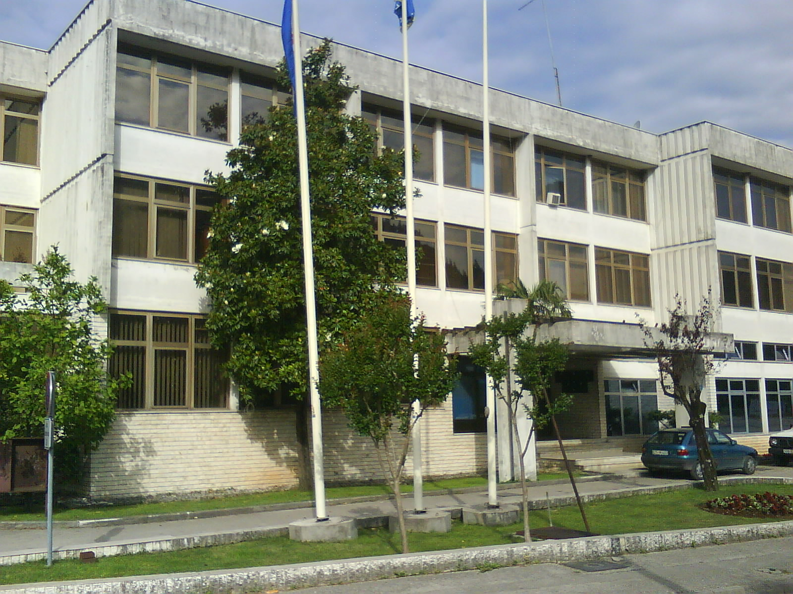 County building in Široki Brijeg